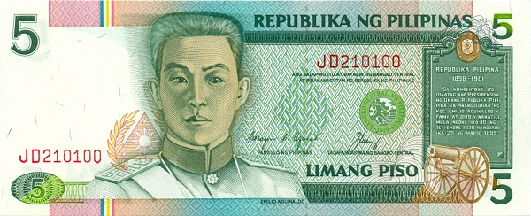 Front side of the New Design series 5-Philippine peso bill.